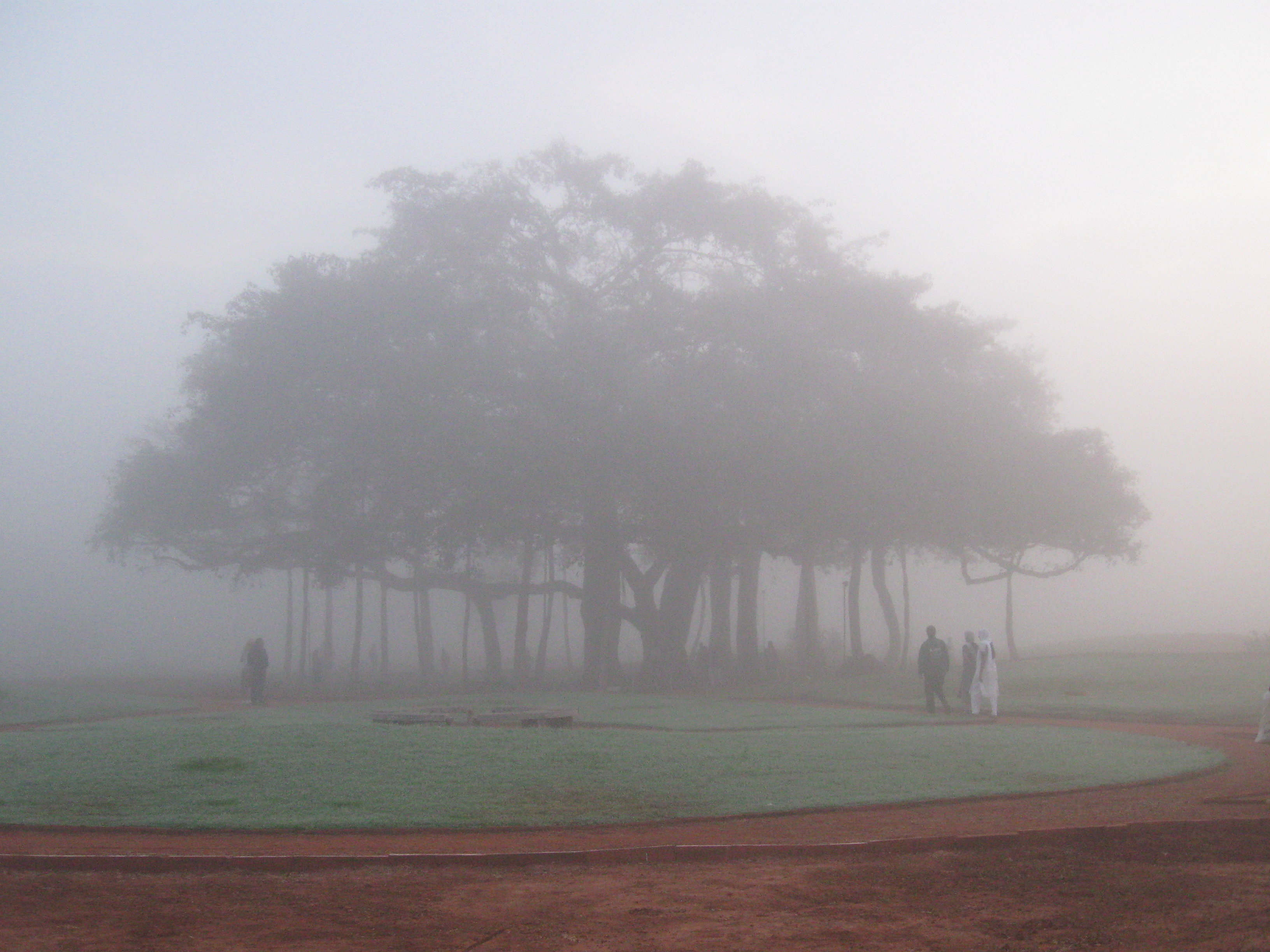 The Holy banyan Tree in the international city of Auroville